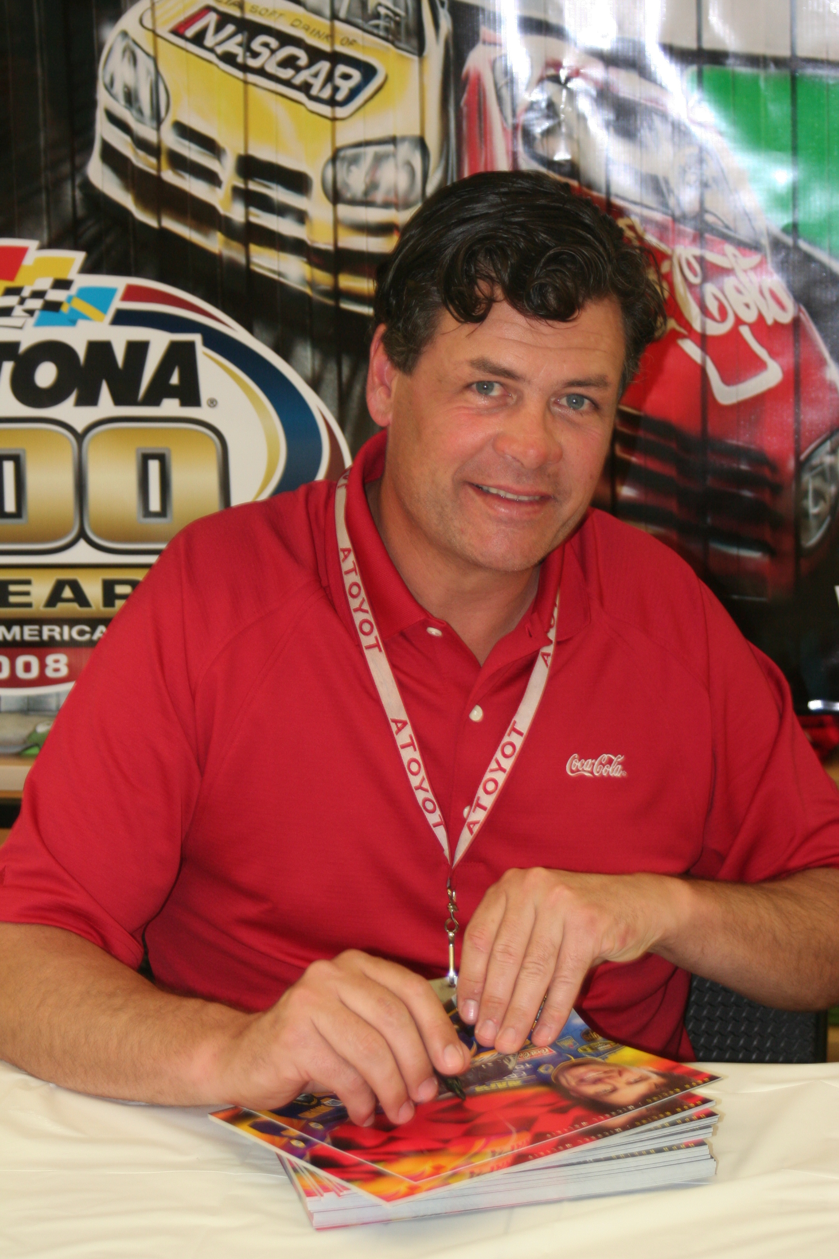 Shot by The Daredevil at Daytona during Speedweeks 2008Michael Waltrip